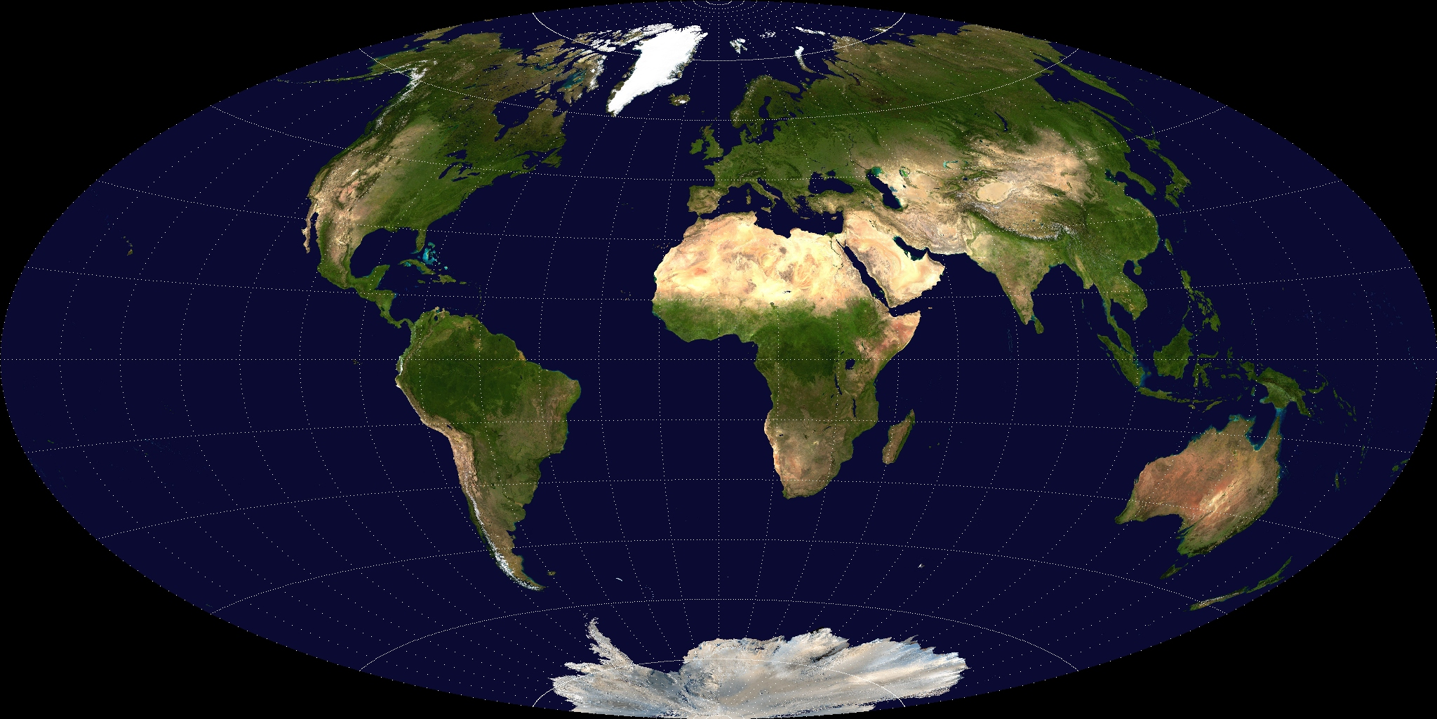 An Aitoff projection of a Visible Earth image collected by the Earth Observatory experiment of the U.S. Government's NASA space agency. The reticle is 15 degrees in latitude and longitude.